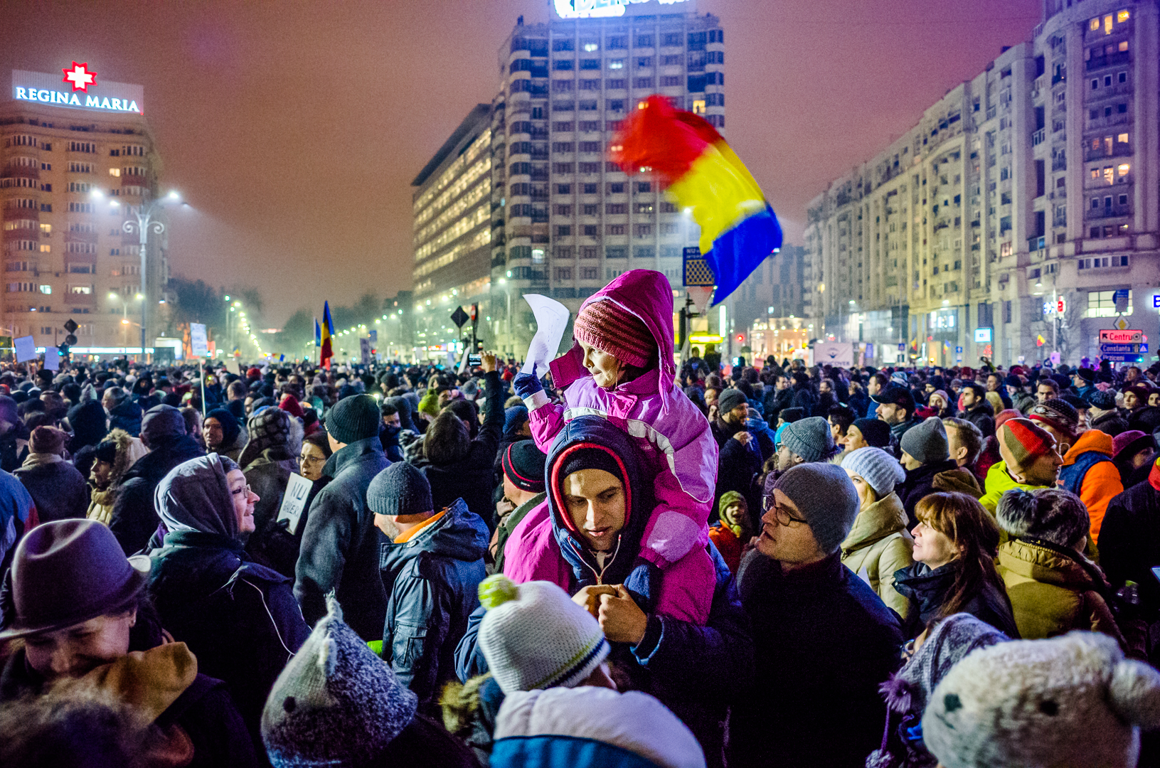 Protest against corruption - Bucharest 2017 - Piata Victoriei